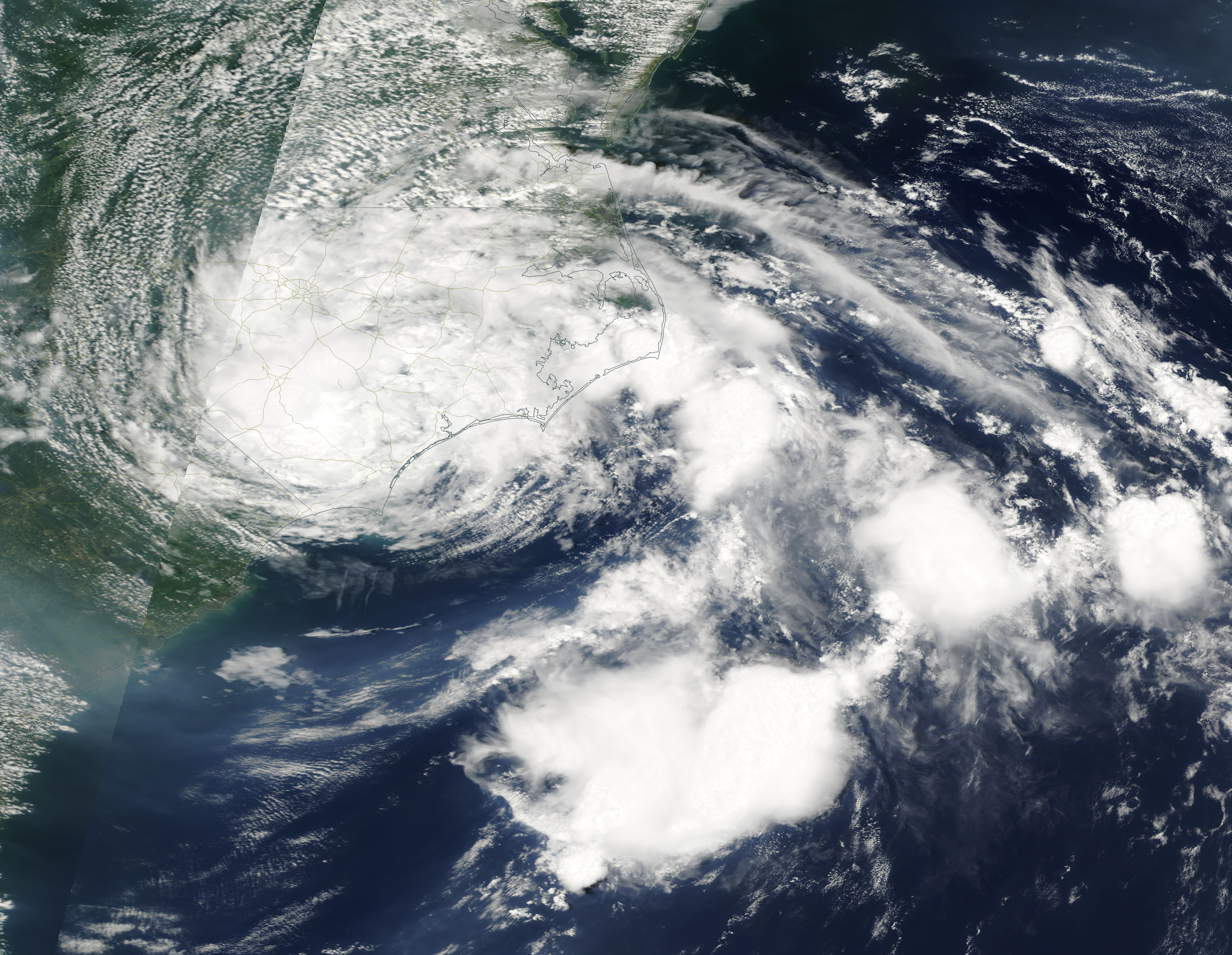 Subtropical depression Allison over North and South Carolina on June 14th.